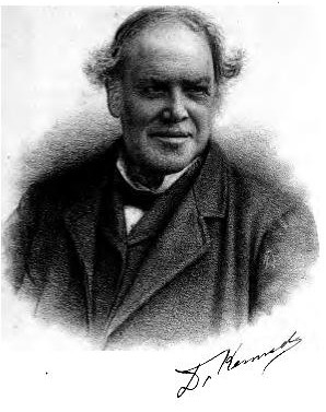 Portrait of David Kennedy (1825–1886), Scottish singer.